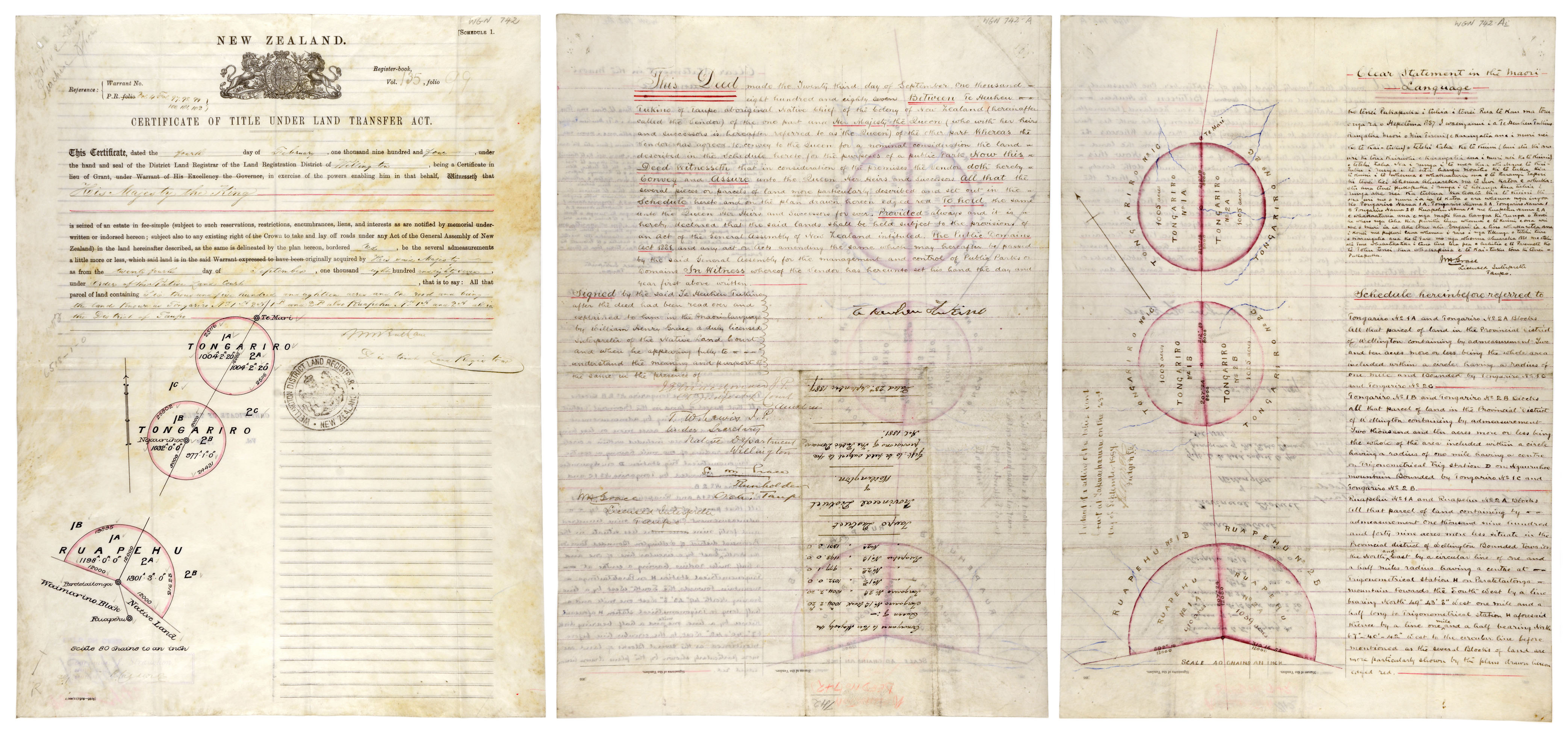 On 23 September 1887 a deed of gift was signed between paramount chief Horonuku Te Heuheu Tūkino IV of Ngāti Tūwharetoa and the Crown. Tongariro, Ruapehu and Ngāuruhoe - the three mountains that now form the nucleus of Tongariro National Park - were given by the rangatira to the nation. This was New Zealand’s first national park, and the first in the world to be gifted by a country’s indigenous people. Horonuku wanted to protect the peaks as ‘a sacred place of the Crown, a gift forever from me and my people.’ He described his connection thus: Ko te Ha o tāku Maunga, ko tāku Manawa The Breath of my Mountain is my Heart His claim to the mountain region was a strong one. Not only was he paramount chief but the bones of his father Mananui, killed in an avalanche in 1846, lay buried there. Horonuku feared that the mana of the mountains would be lost if the land went through the Māori Land Court in the ordinary way and was subsequently cut up into blocks and sold. It was his son-in-law, Lawrence Makawe Grace who came up with the suggestion to make them a tapu place of the Crown. The gift was discussed and finalised at meeting of the Māori Land Court in Taupō. Then just 2640 hectares, now Tongariro National Park extends over 79,000 hectares. In 1993 the park attained international recognition when it became a UNESCO World Heritage site, recognised for its universally significant cultural and natural values. Shown here is the deed of gift for Tongariro National Park signed by Horonuku Te Heuheu Tūkino IV. Archives Reference: ABWN 8102 W5279 Box 344/ WGN 742 For more information For updates on our On This Day series and news from Archives New Zealand, follow us on Twitter